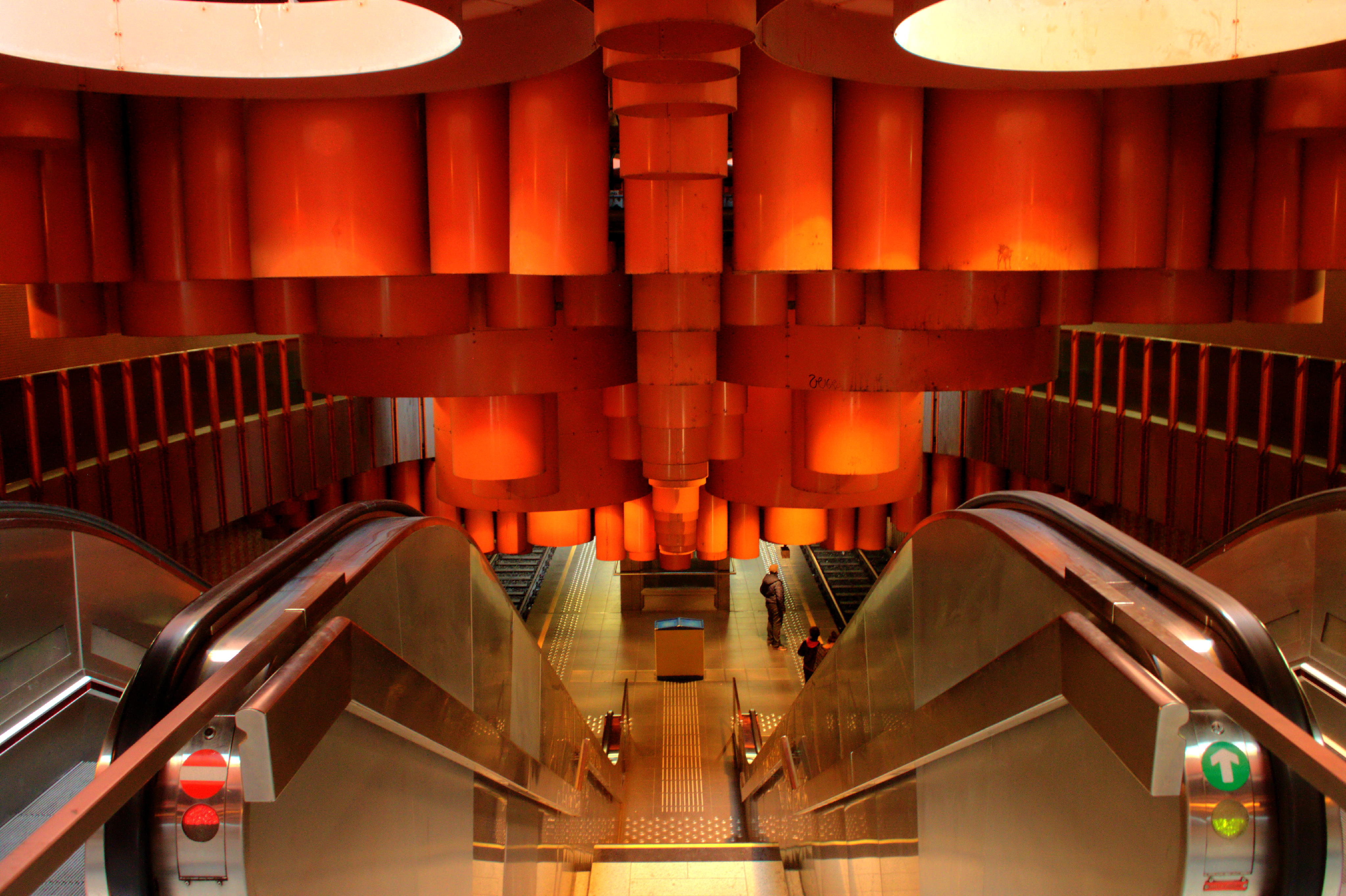 Enterance to the Pannenhuis metro station, Belgium Luminance HDR 2.3.0 tonemapping parameters: Operator: Fattal Parameters: Alpha: 1.05 Beta: 0.97 Color Saturation: 0.9 Noise Reduction: 0.1 PreGamma: 0.6